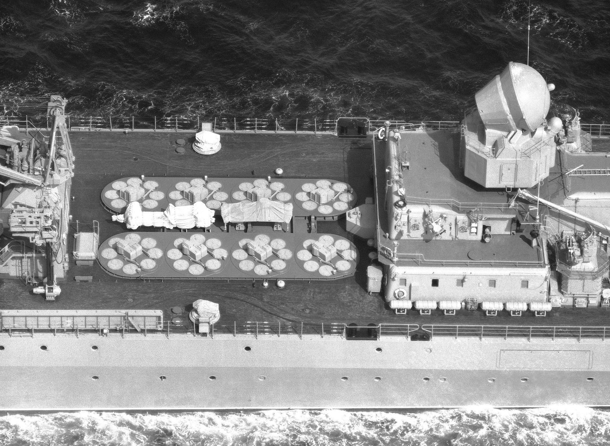 The Soviet Slava-class guided missile cruiser MARSHAL USTINOV underway, showing the ship's eight octuple SA-N-6 surface-to-air missile launchers at right center and the "Top Dome" fire control radar for the SA-N-6 missiles at left center.